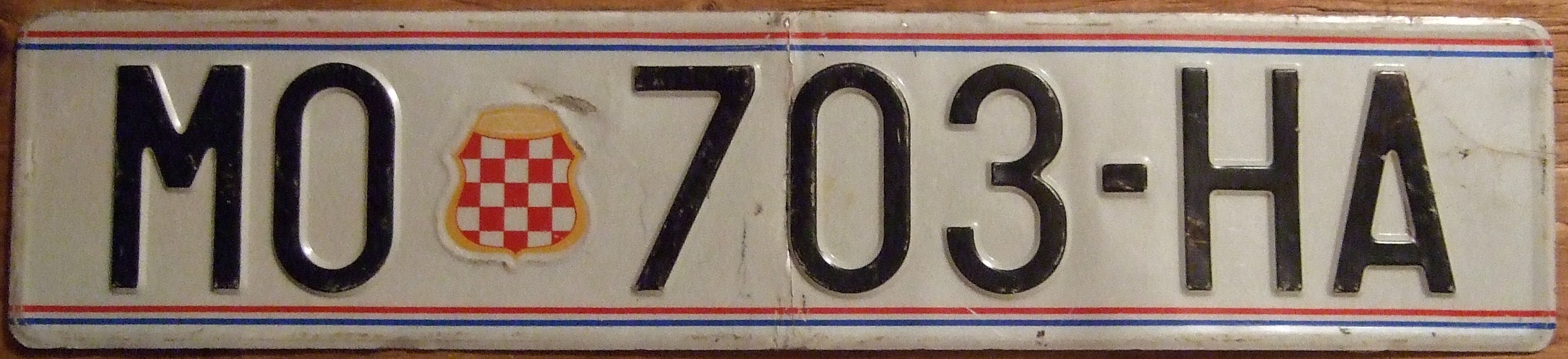 One line license plate from the city of Mostar in Bosnia-Herzogovina. The Croation occupied region during the Balkan war was called Herzeg-Bosna. This plate was issued in the city of Mostar.